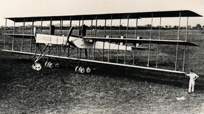 Caproni Ca.40 - The prototype of the Ca.4-Ca.40 Series